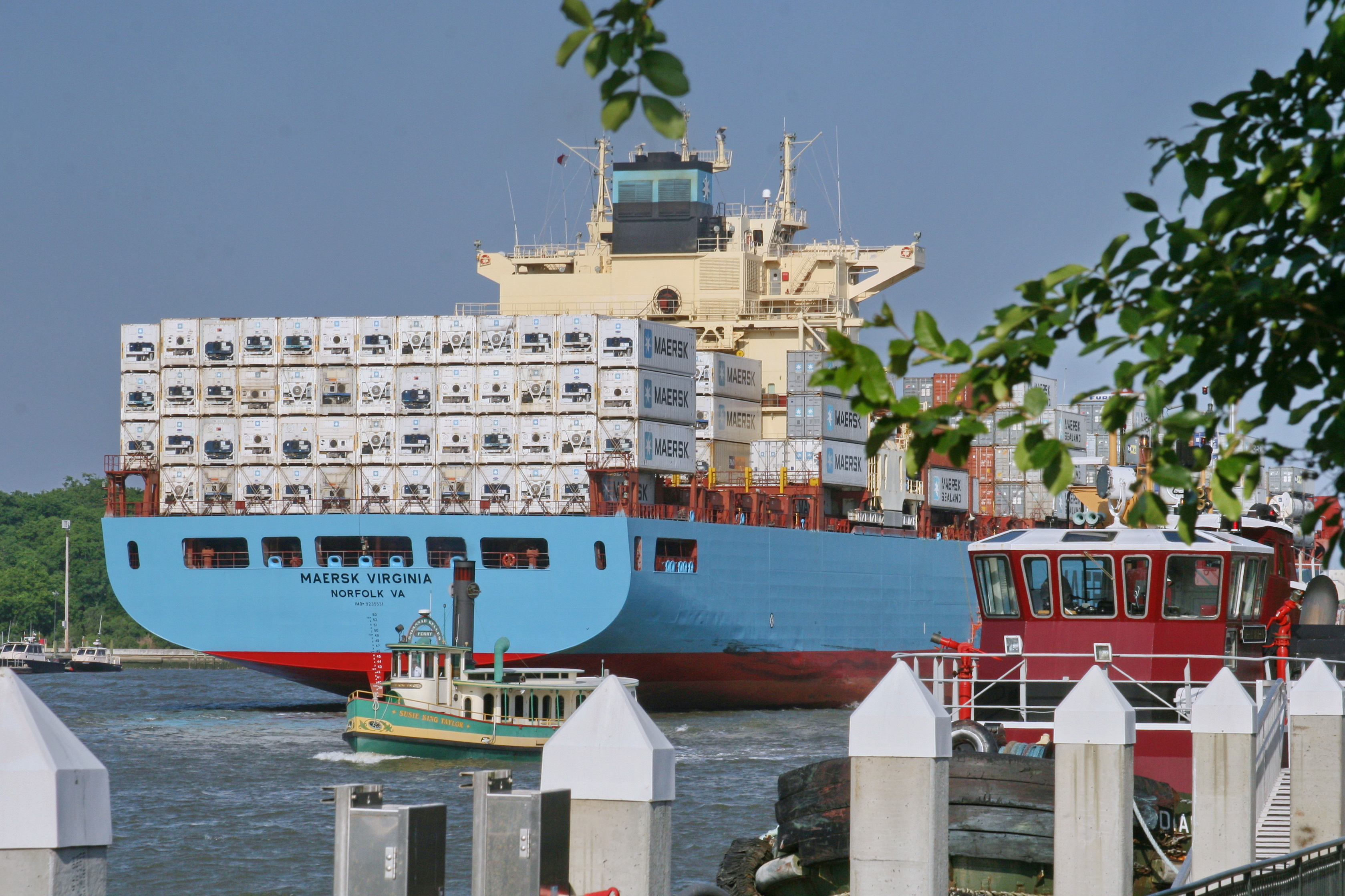 Ex-name(s): Maersk Geelong IMO number: 9235531 MMSI: 369163000 Date delivered: June 20, 2002 Builder (where built): Hyundai Heavy Industries (Ulsan, South Korea) Flag: USA Port of Registry: Norfolk, Virginia Type of vessel: Container Ship Type of hull: Single Hull Length Over All (LOA): 292.10 M Length Between Perpendiculars (LBP): 207 M Extreme breadth (Beam): 32.20 M Net Tonnage: 50968 Speed recorded (Max / Average): 22.3 / 19.7 knots Owner: Maersk Line Limited Operator: Maersk Line Limited